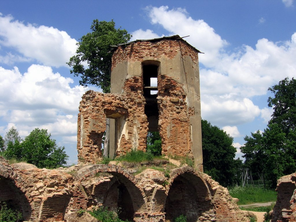 The ruins of Halšany Castle. Halšany, Belarus